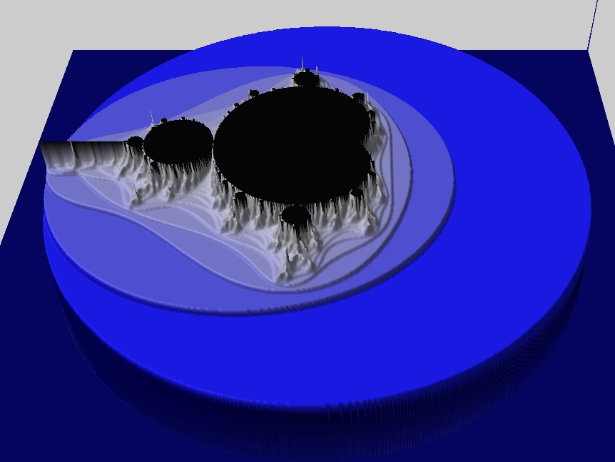 This plot is centered at -.75,0. It has a real width of 3.5